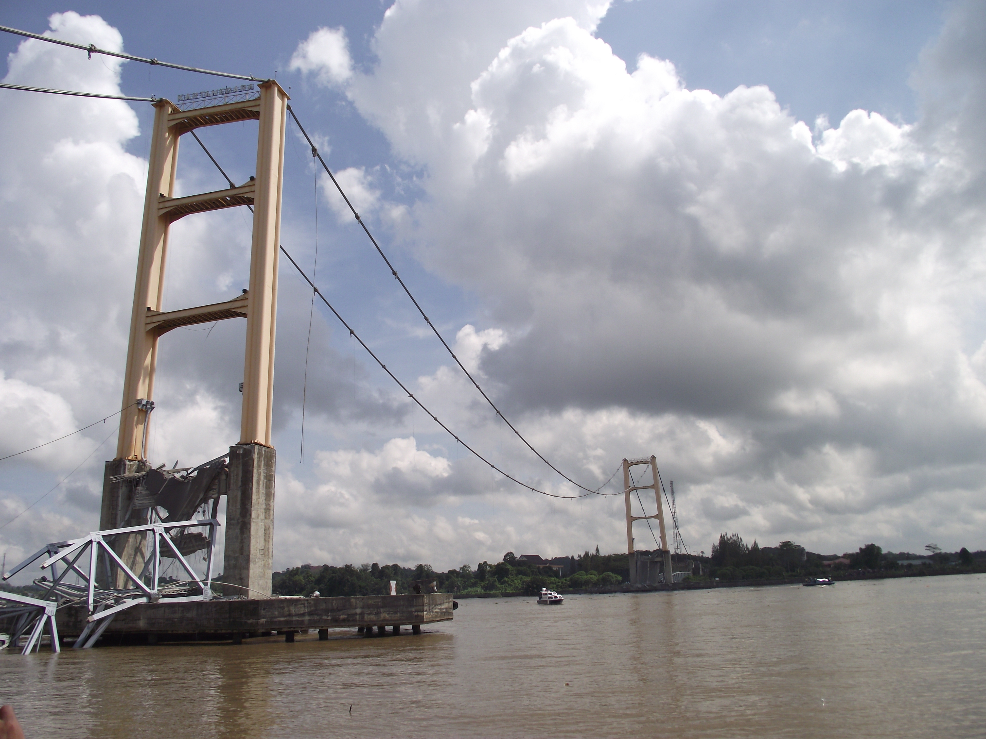 the picture of kutai kartanegara bridge after collapse on november 26th, 2011. it remain 2 main pillars